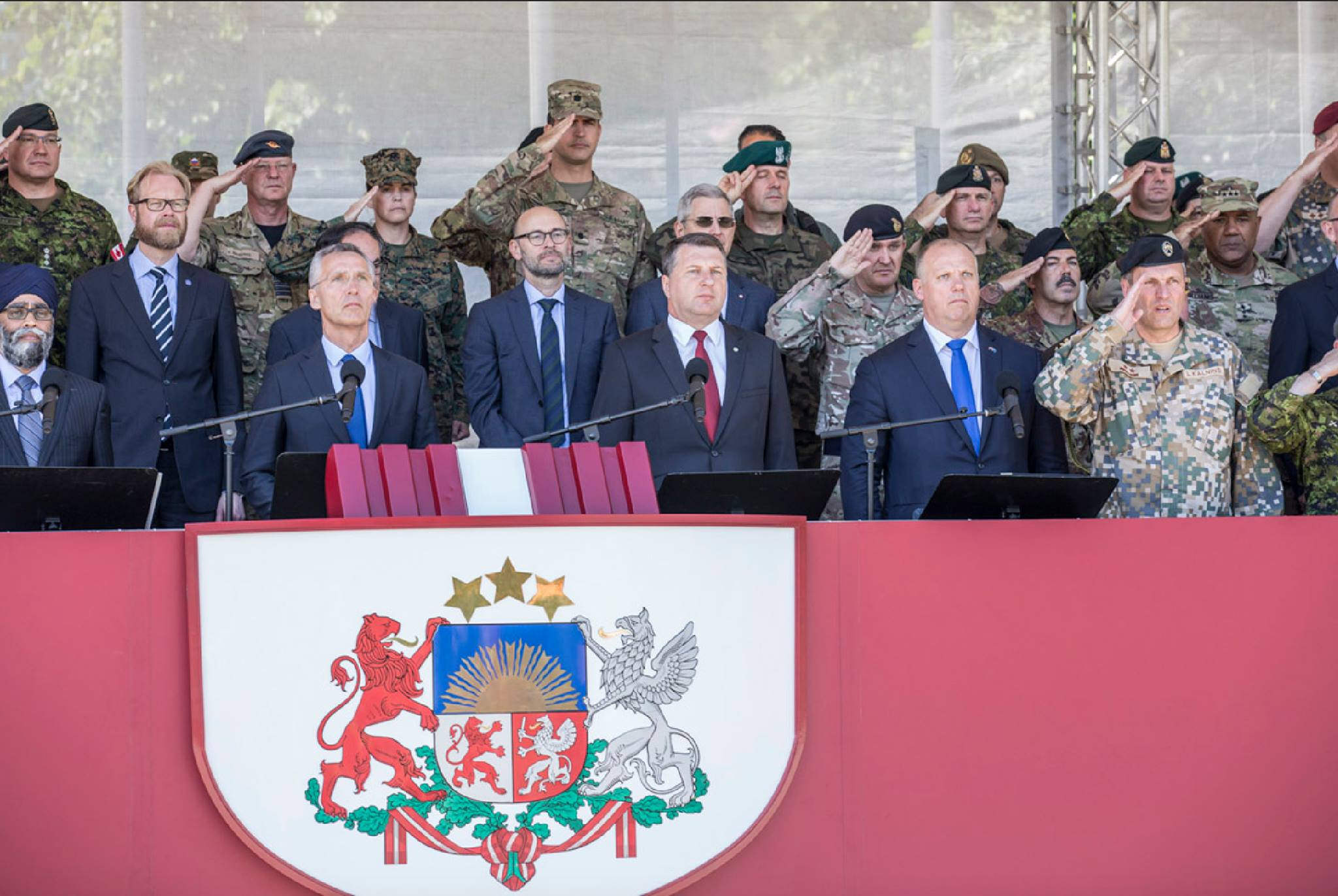 The welcome ceremony of the enhanced Forward Presence Battlegroup (eFP) on June 19 in Ādaži, Latvia